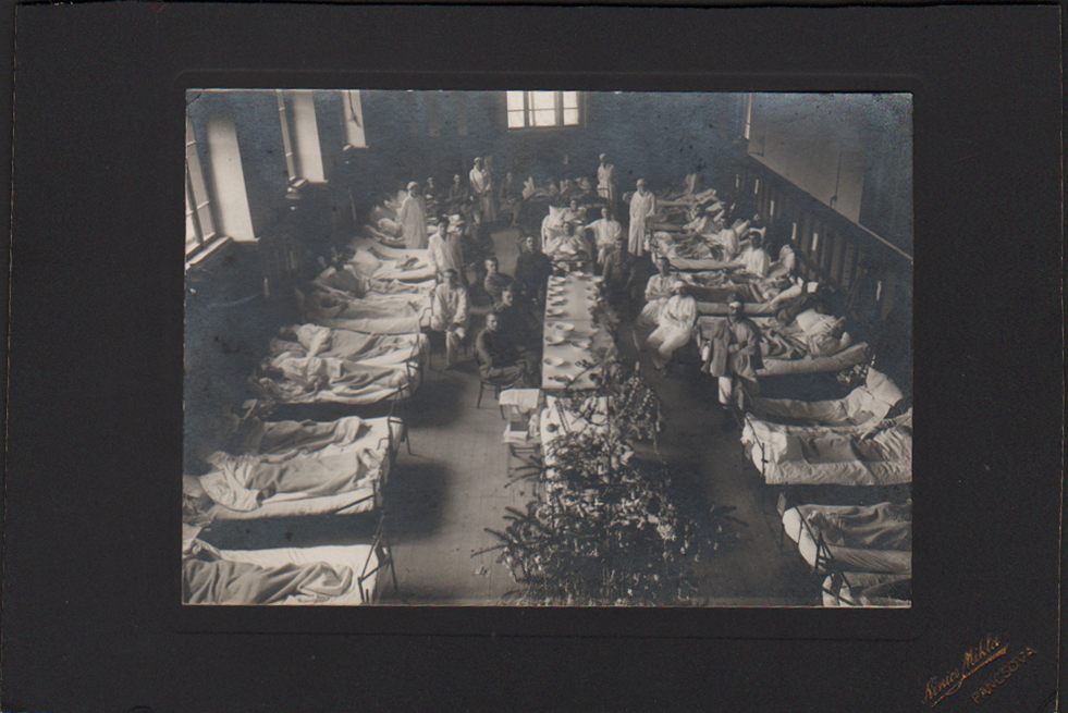 A hospital room in a military hospital in the building of the Women's Civil School in Pančevo. Christmas tree on the picture indicates that the picture was created during New Year's holidays.